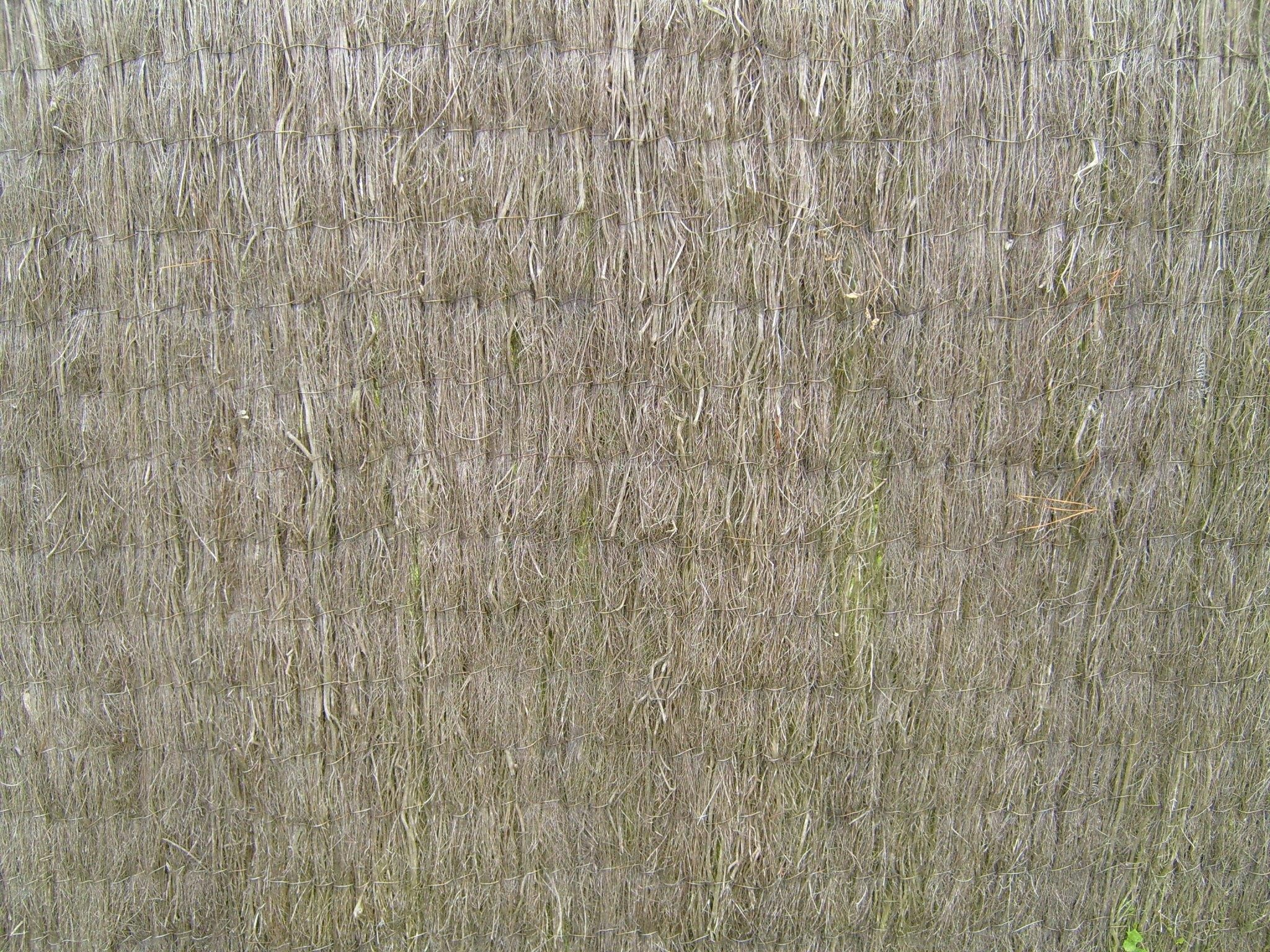 Image title: Straw reed mat good for thatched roof Image from Public domain images website